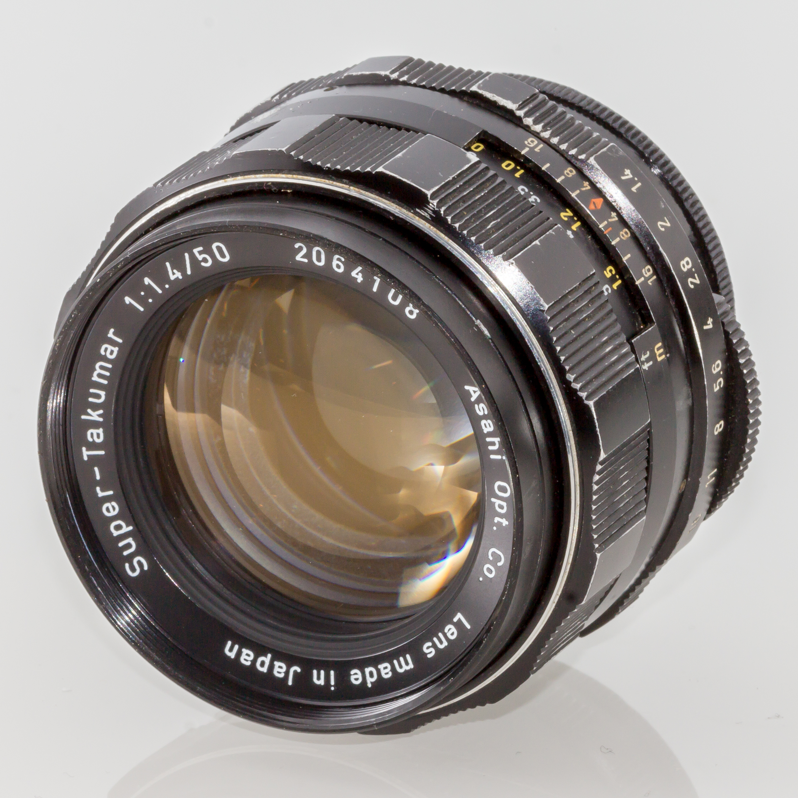 Super-Takumar 50mm F1.4